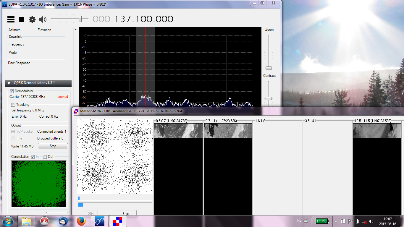 Data from the Meteor-M2 weather satellite in LRPT format being received and decoded in realtime using an SDR receiver.